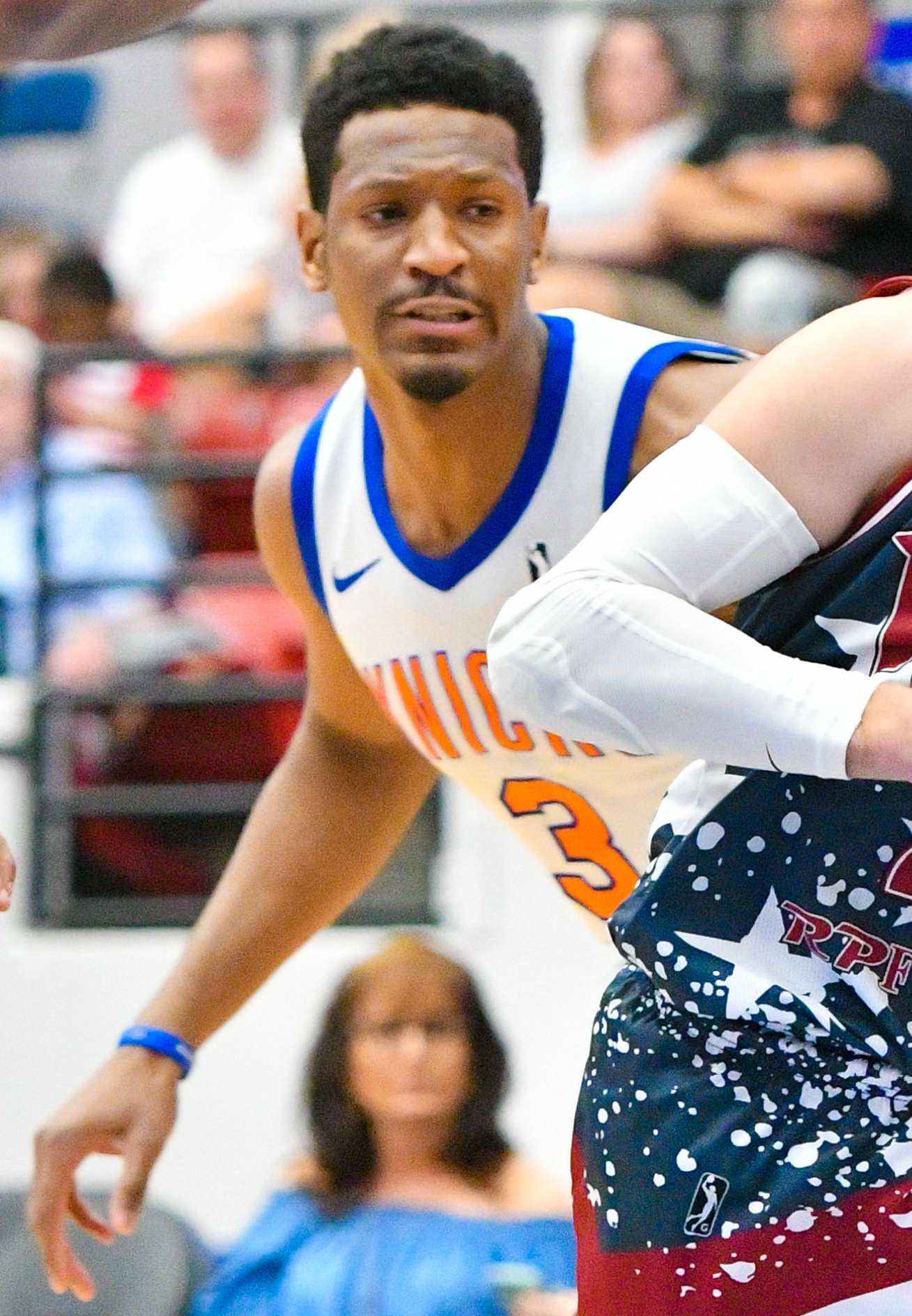 Andrew Rowsey. Lakeland Magic vs Westchester Knicks. RP Funding Center. Lakeland, Fla. Jan. 11, 2020. (Photo by Tom Hagerty.)